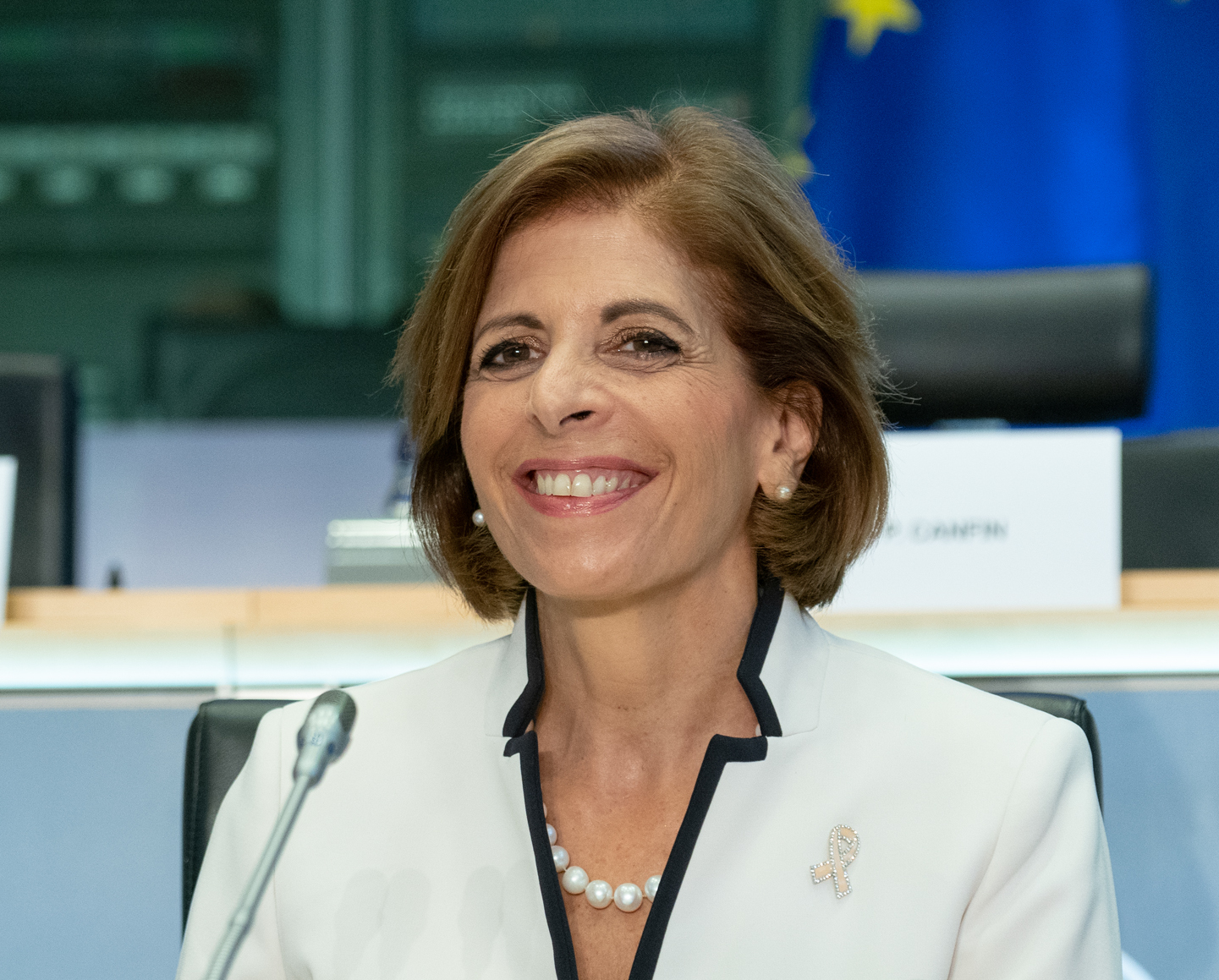 Before the European Parliament can vote the new European Commission led by Ursula von der Leyen into office, parliamentary committees will assess the suitability of commissioners-designate. On 23-26 May, more than 200,000,000 people in 28 EU countries went to the polls to elect members of the European Parliament, giving them a strong democratic mandate, including voting into office the new European Commission and examining the competencies and abilities of its commissioners-designate. Elected members of the European Parliament will also listen to their ideas and will assess their willingness to take concrete actions on the issues that Europeans care about. Each candidate commissioner is invited for a live-streamed, three-hour hearing in front of the committee or committees responsible for their proposed portfolio. The hearings will take place between Monday 30 September and Tuesday 8 October. This photo is free to use under Creative Commons license CC-BY-4.0 and must be credited: "CC-BY-4.0: © European Union 2019 – Source: EP". No model release form if applicable. For bigger HR files please contact: webcom-flickr(AT)